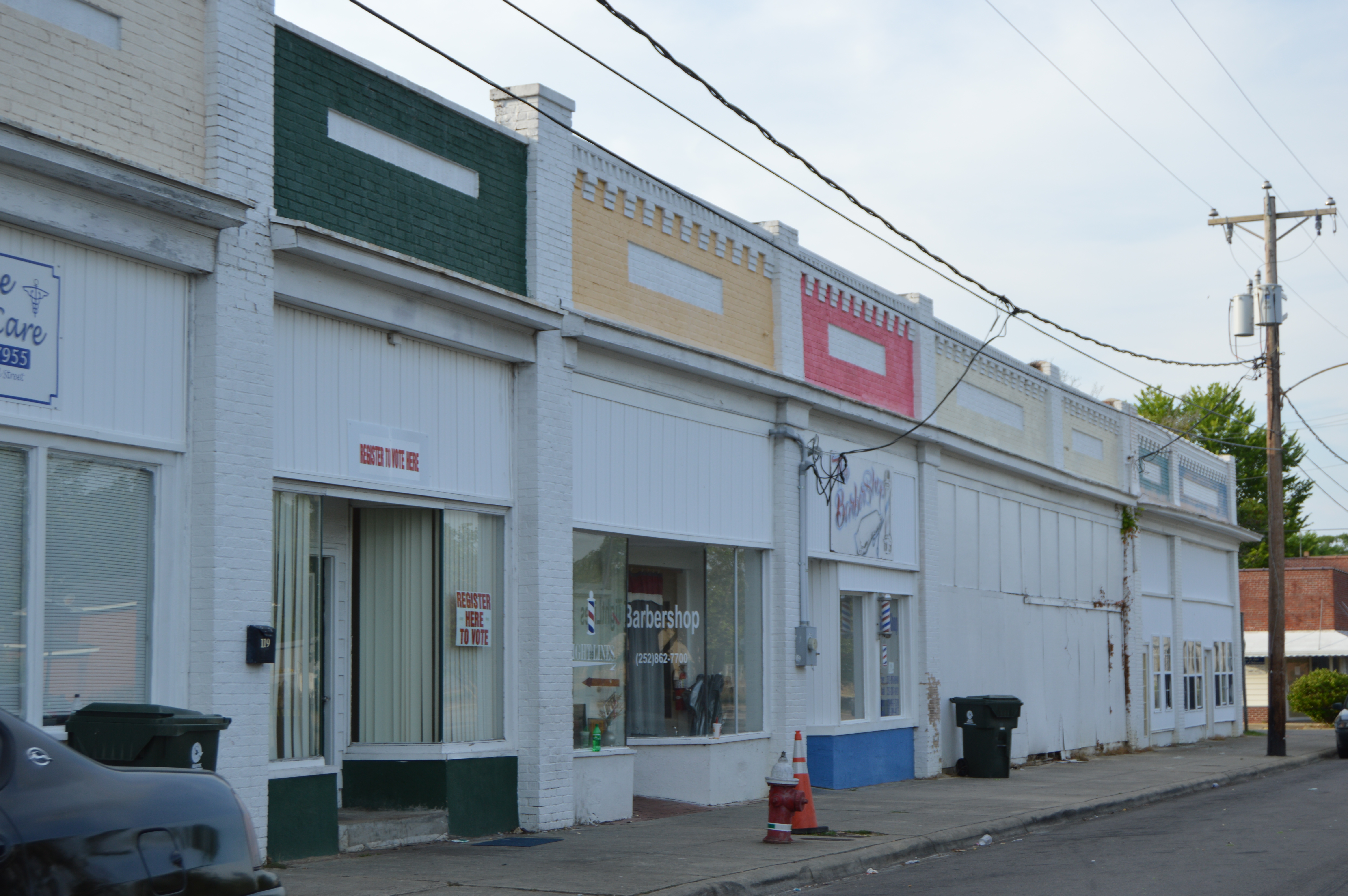 Buildings in the 100 block of Railroad Street in Ahoskie, North Carolina, United States. This block is part of the Ahoskie Downtown Historic District, a historic district that is listed on the National Register of Historic Places.